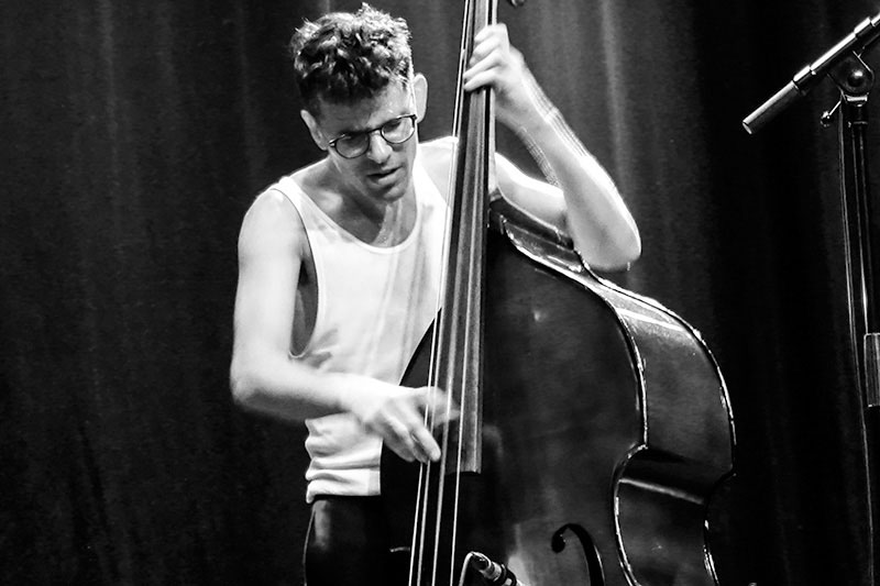 Torbjörn Zetterberg in Aarhus, Denmark 2016. Playing with Mette Rasmussens Quintet.